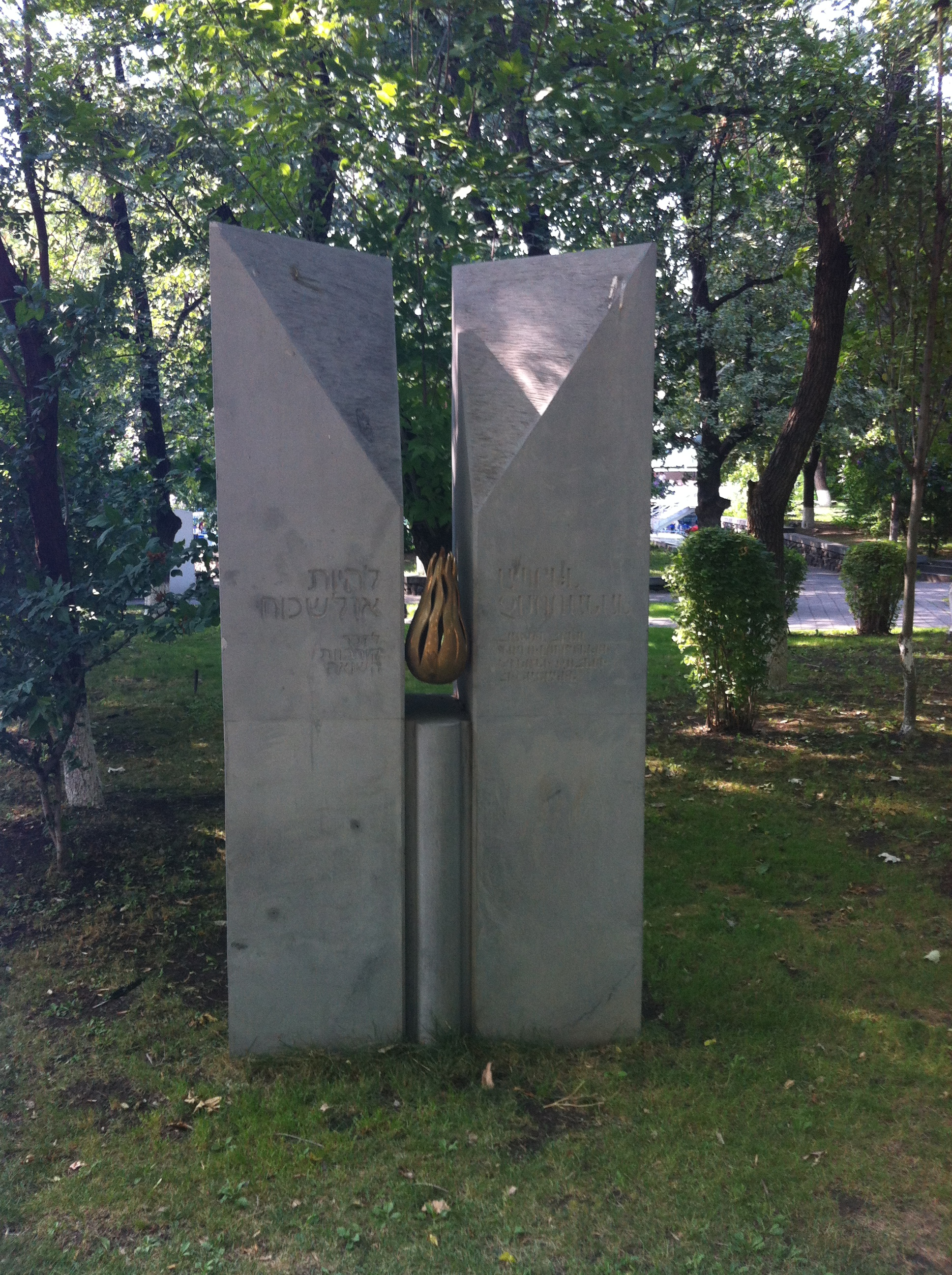 Holocaust Memorial in Yerevan, Armenia